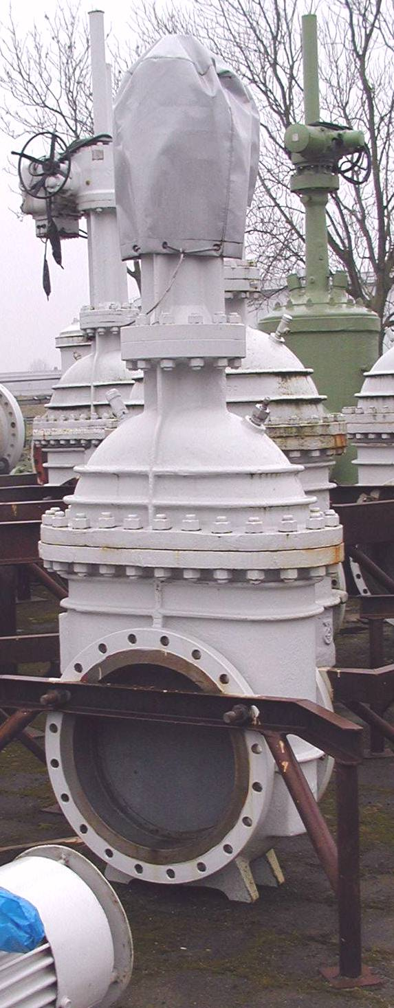 Gate valve for a 28" crude oil pipeline